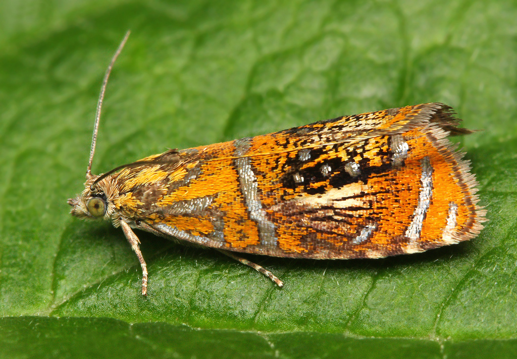 Olethreutes arcuella Please make a view full size of my photos... Thanks :) I found this beautiful butterfly on the leaf. I used Av - F11, ISO - 320, Tv - 1/250 Sec